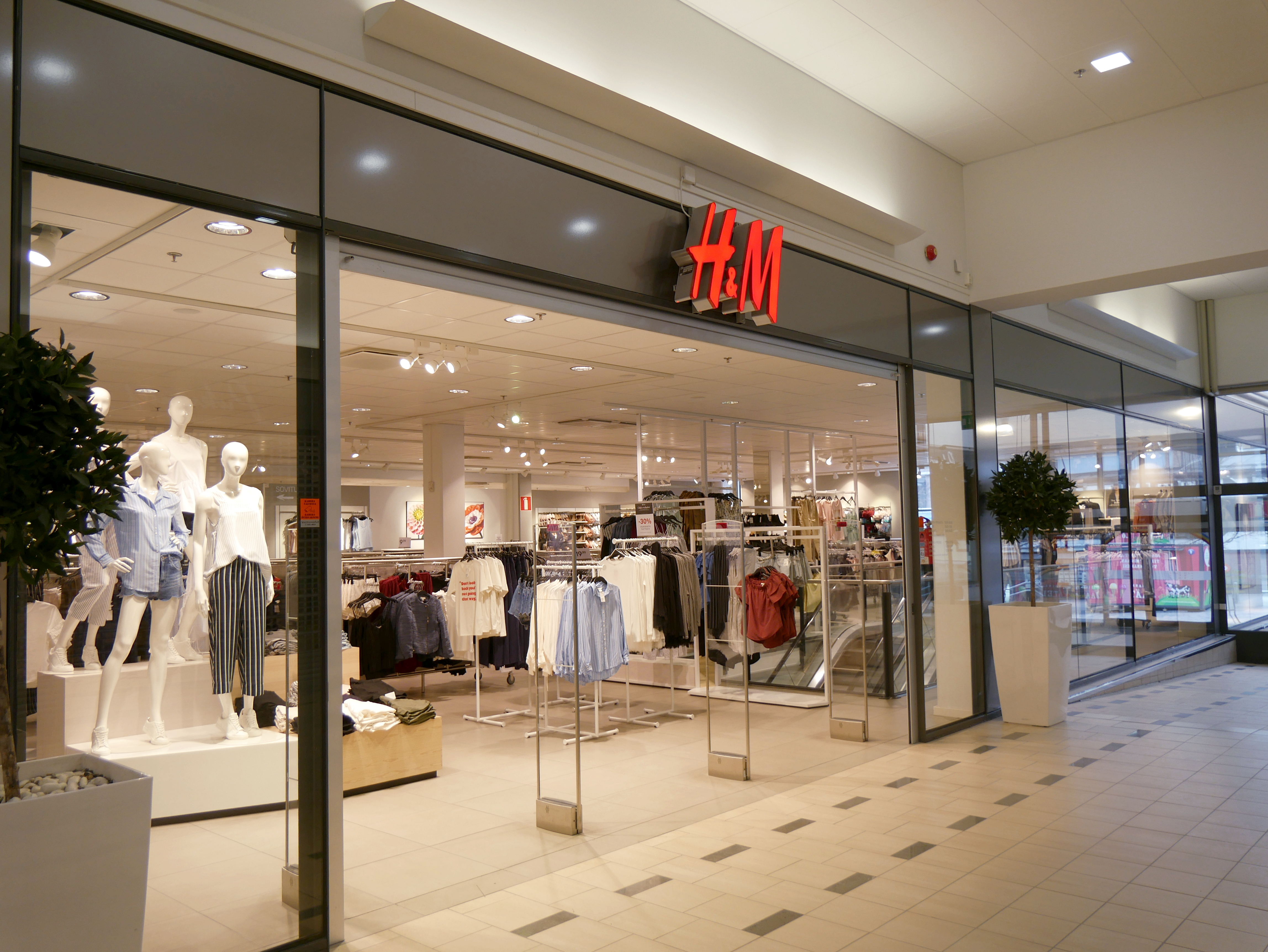 H&M store in Kokkola, Finland.